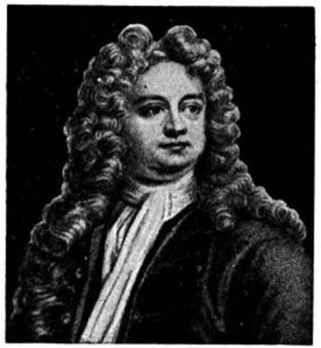 George Lillo (born 1861).